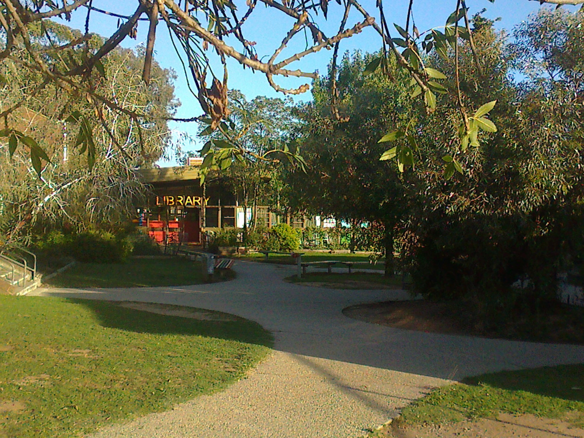 College Library March 2012